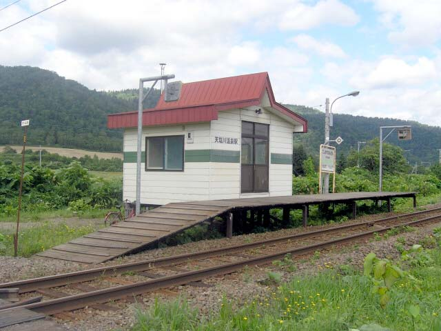 Teshiogawa-Onsen Station in Sōya Main Line, Japan